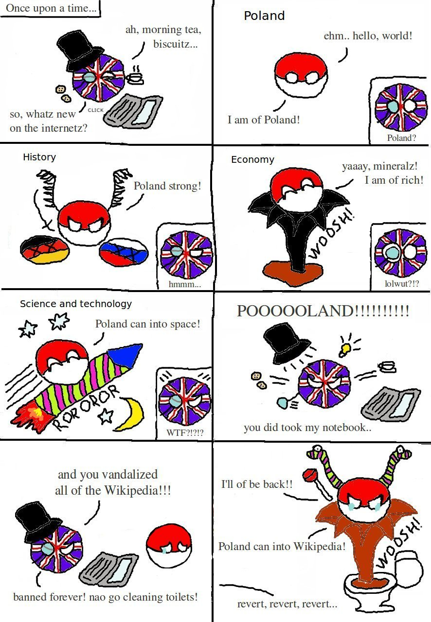 A Polandball cartoon, which utilizes typical Polandball conventions and catchphrases: Britball with top hat, monocle and tea - [1] [2], [3] [4] [5] [6] [7] [8] [9] [10] and many more; Polandball image (the "winged hussar" etc.) - [11] [12] [13] [14] [15] [16] [17] and many more; "Poland strong" - [18] [19] [20]; "minerals" - [21] [22] [23]; "Poland cannot into space": sources [24] (the source authored by Wojciech Orliński), [25], cartoons: [26] [27] [28] [29] [30] [31] [32] [33] [34] [35] [36] this nice animation and many many others; The “X cannot into Y” became a Polandball related meme itself. [37]; Polandball cleaning the Britball's toilet - [38] [39] [40] [41] [42] [43] and more. See also: I'll be back, Hello, world.